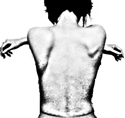 A demonstration of the winging scapula